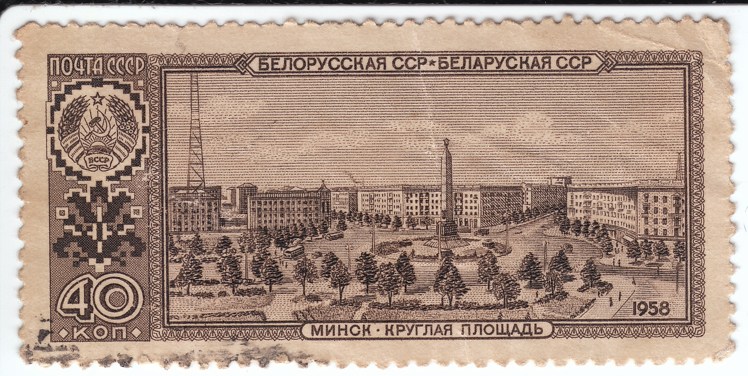 USSR postage stamp; Capitals of USSR republics: Minsk — capital of Belorussian SSR; 1958; 40 kopeks.